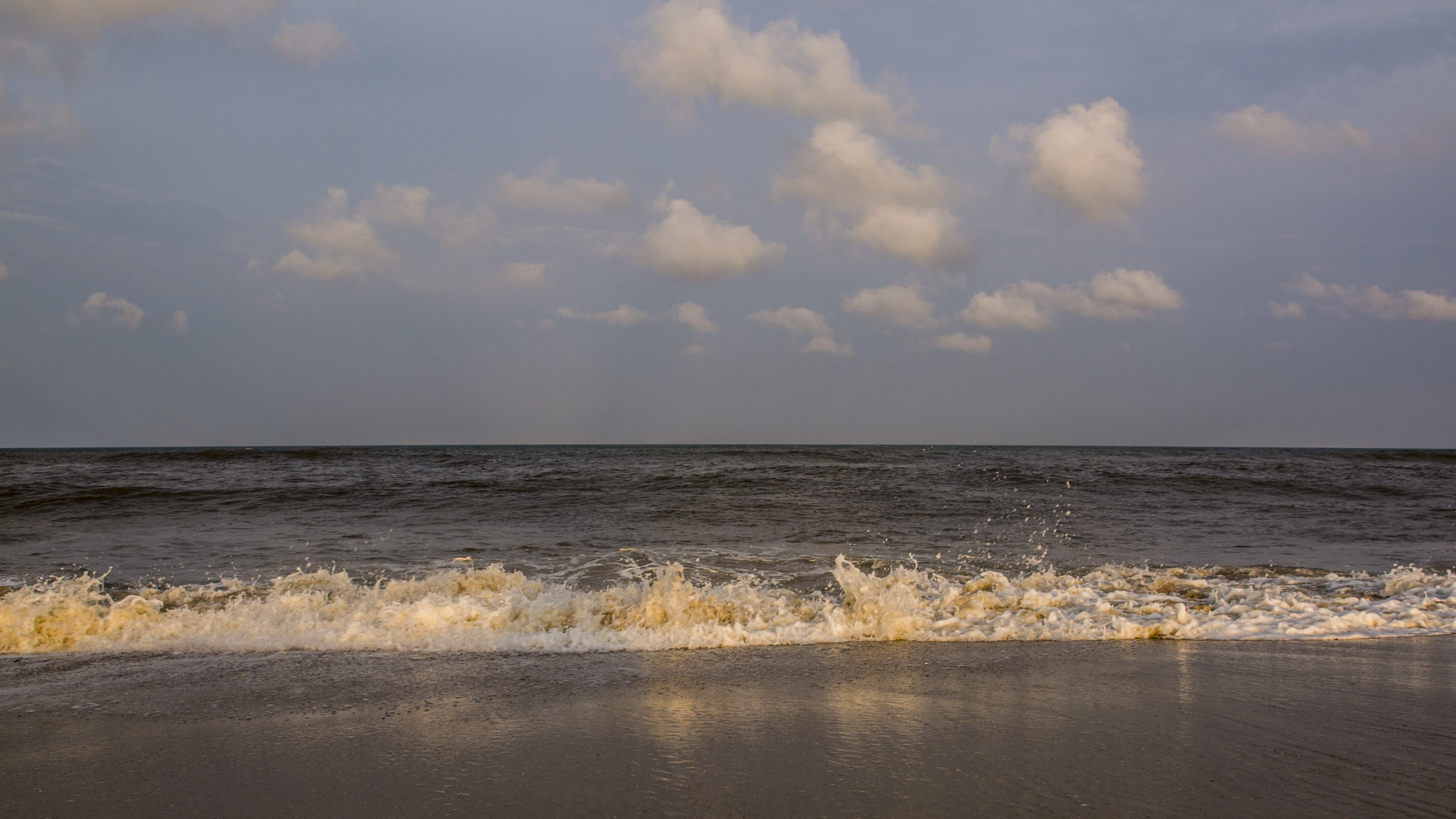 The beach at Waves, NC, on Hatteras Island (2013)